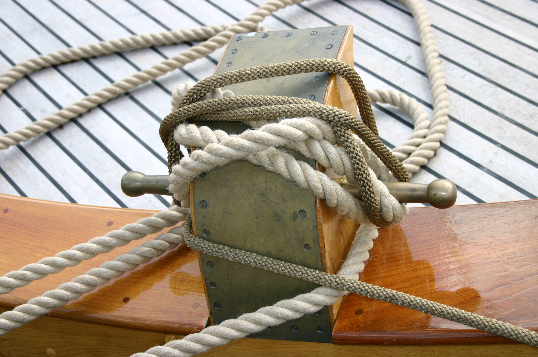 Ropes on a classic fishingboat in Spakenburg, The Netherlands